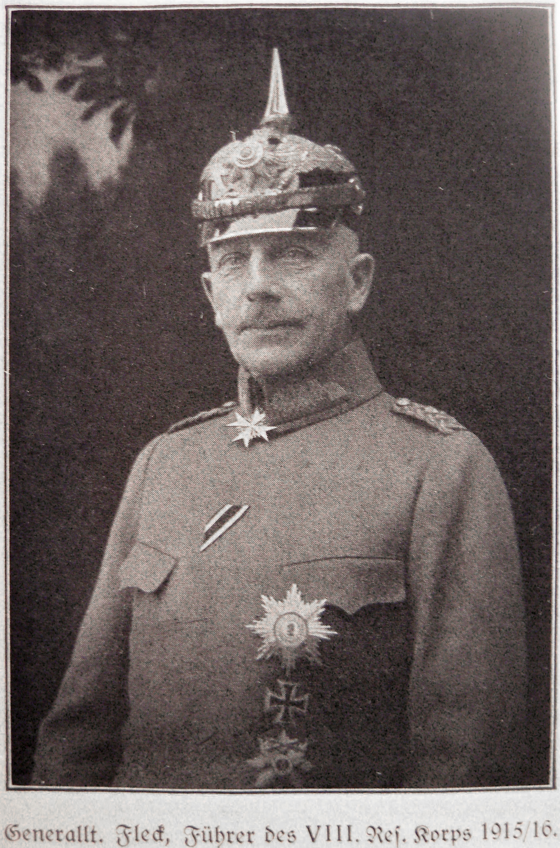 Prussain General Paul Fleck